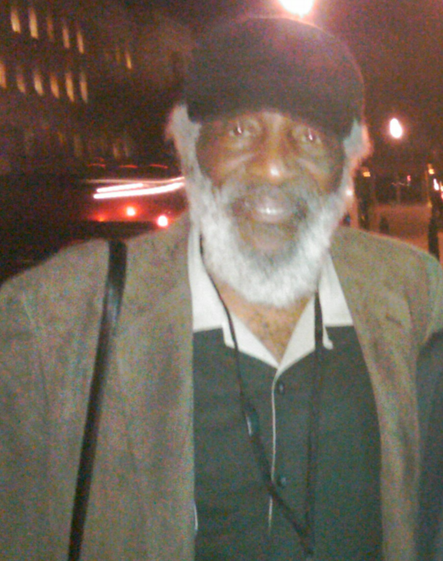 Civil Rights activist and comedian Dick Gregory in 2010. Photo courtesy of Rep. Keith Ellison, via Flickr. This file has been extracted from another file: Dick Gregory and Keith Ellison.jpg